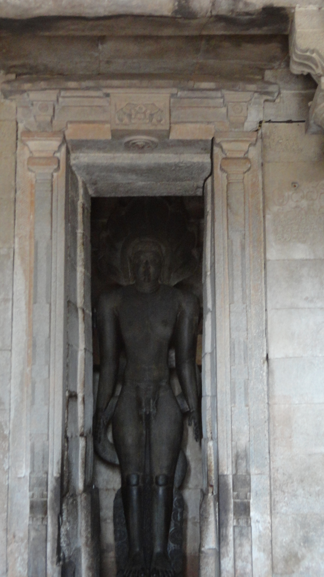 This is the sanctorum of the Parsvanatha Basti, Sravanabelgola, Hassan, Karnataka covering the idol.